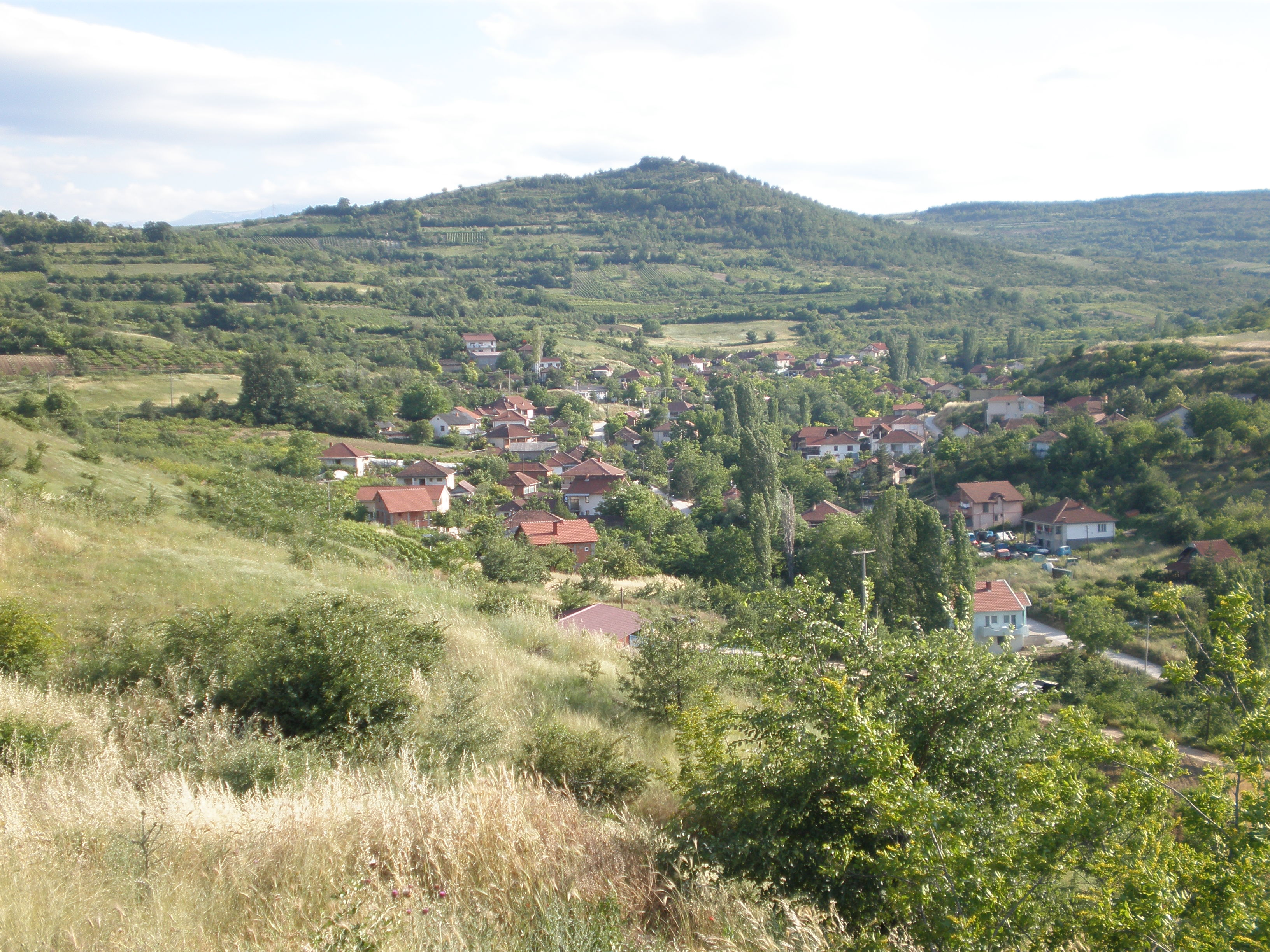 View of the village of Usje, Macedonia